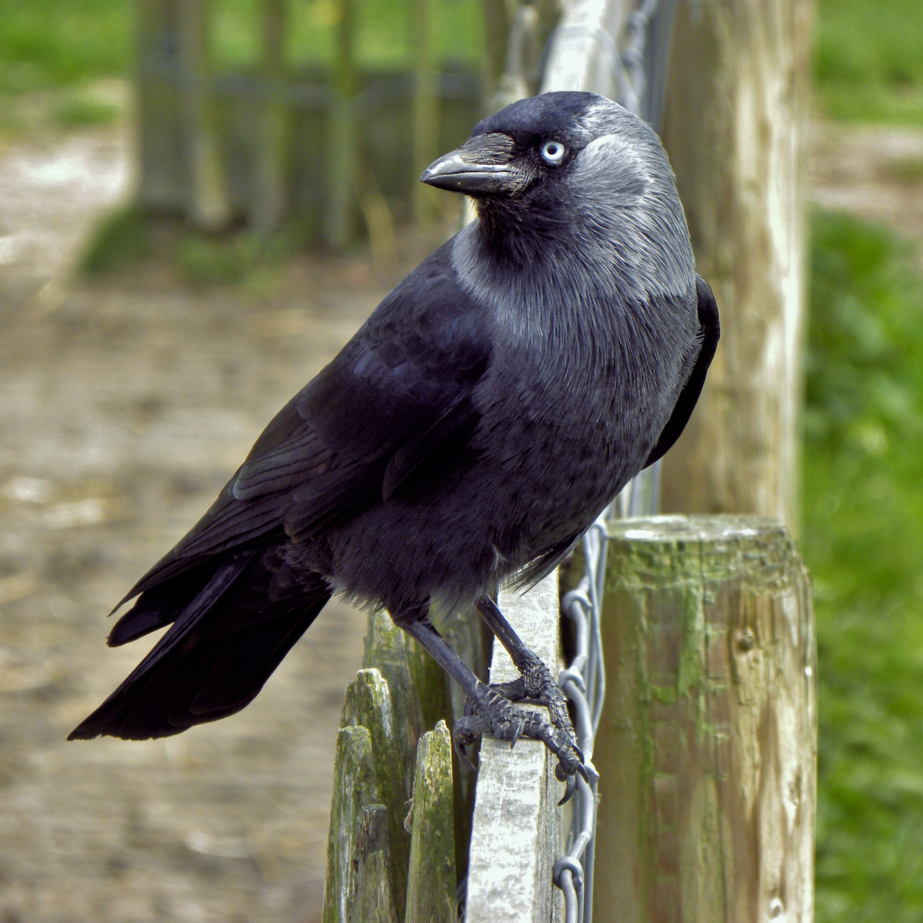 A Eurasian Jackdaw (also known as European Jackdaw and Western Jackdaw) perching on a fence in the Netherlands.